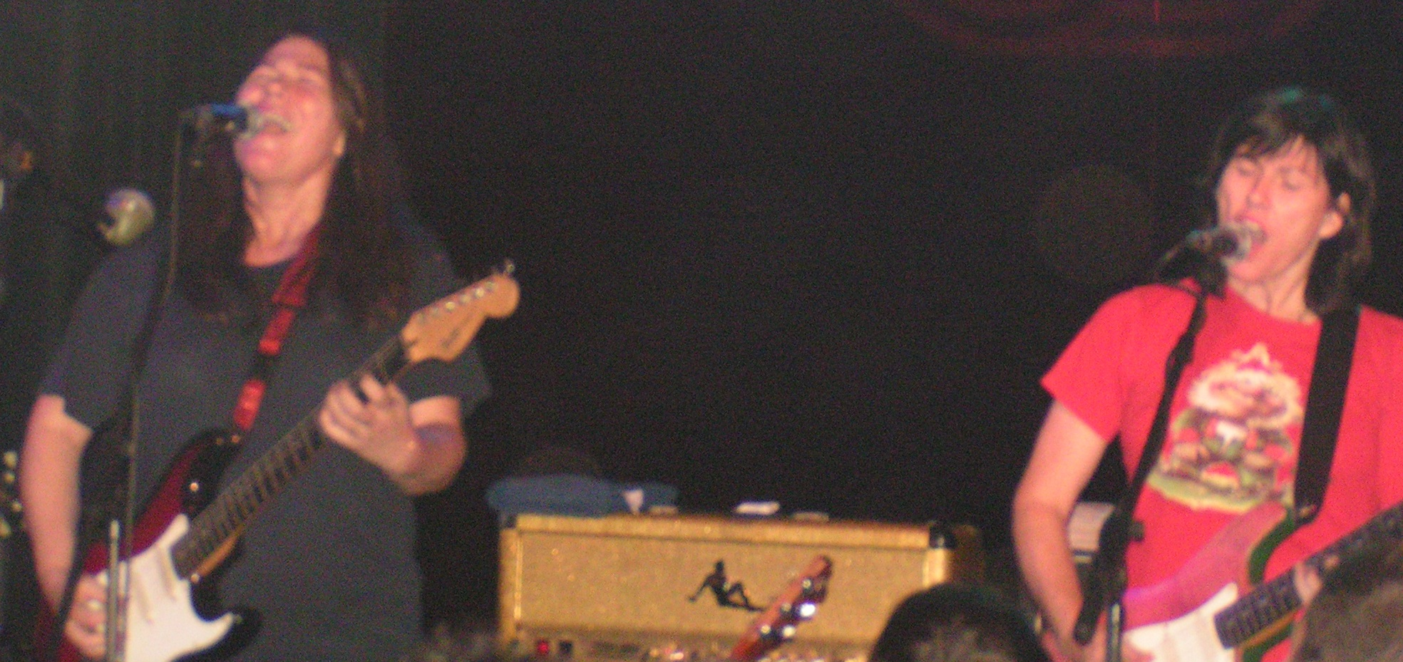 Kim Deal and Kelley Deal, The Breeders live in the Zappa club, Tel Aviv, Israel, August 22, 2008